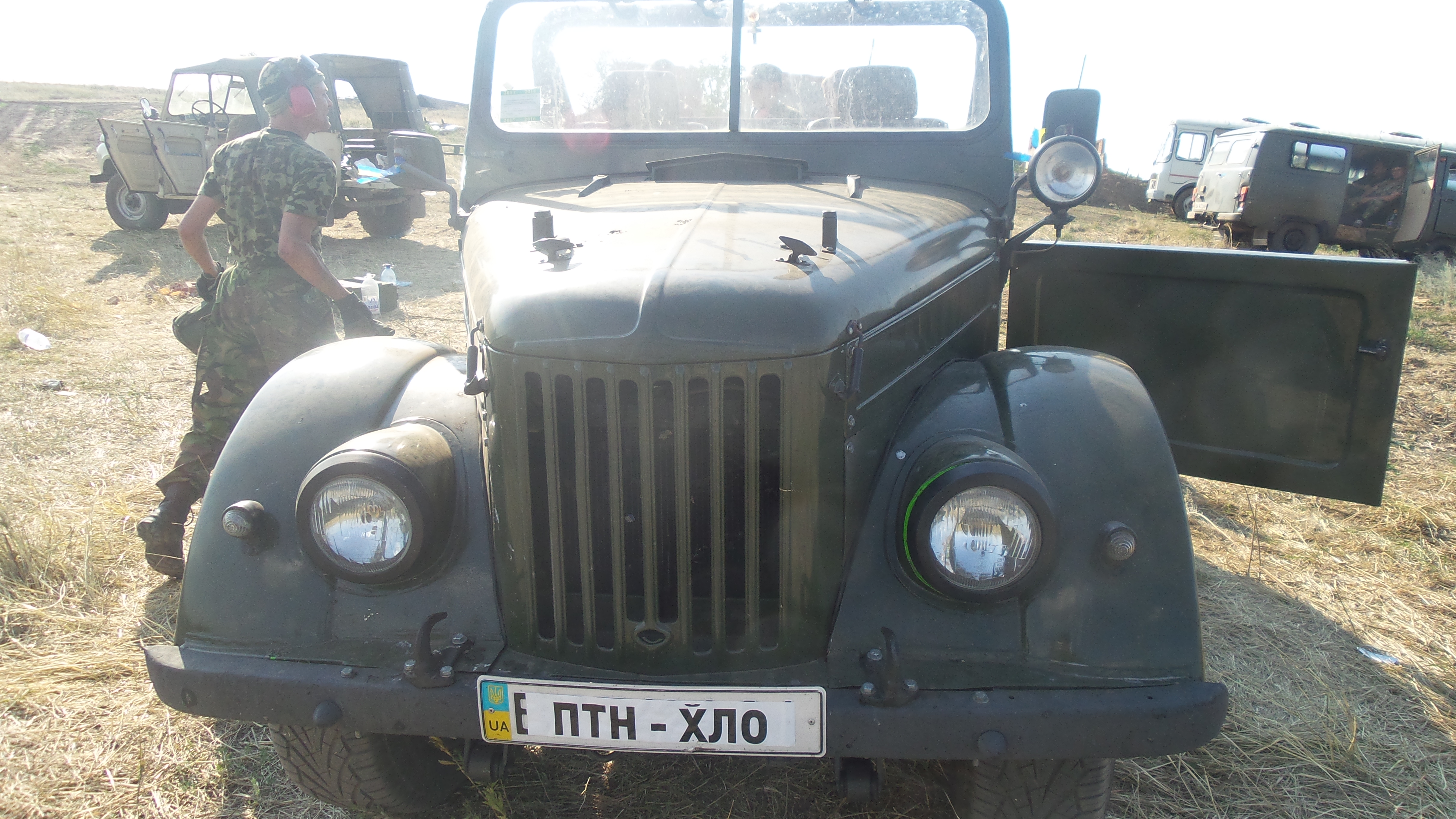 Aidar Battalion. Lugansk region, Ukraine.